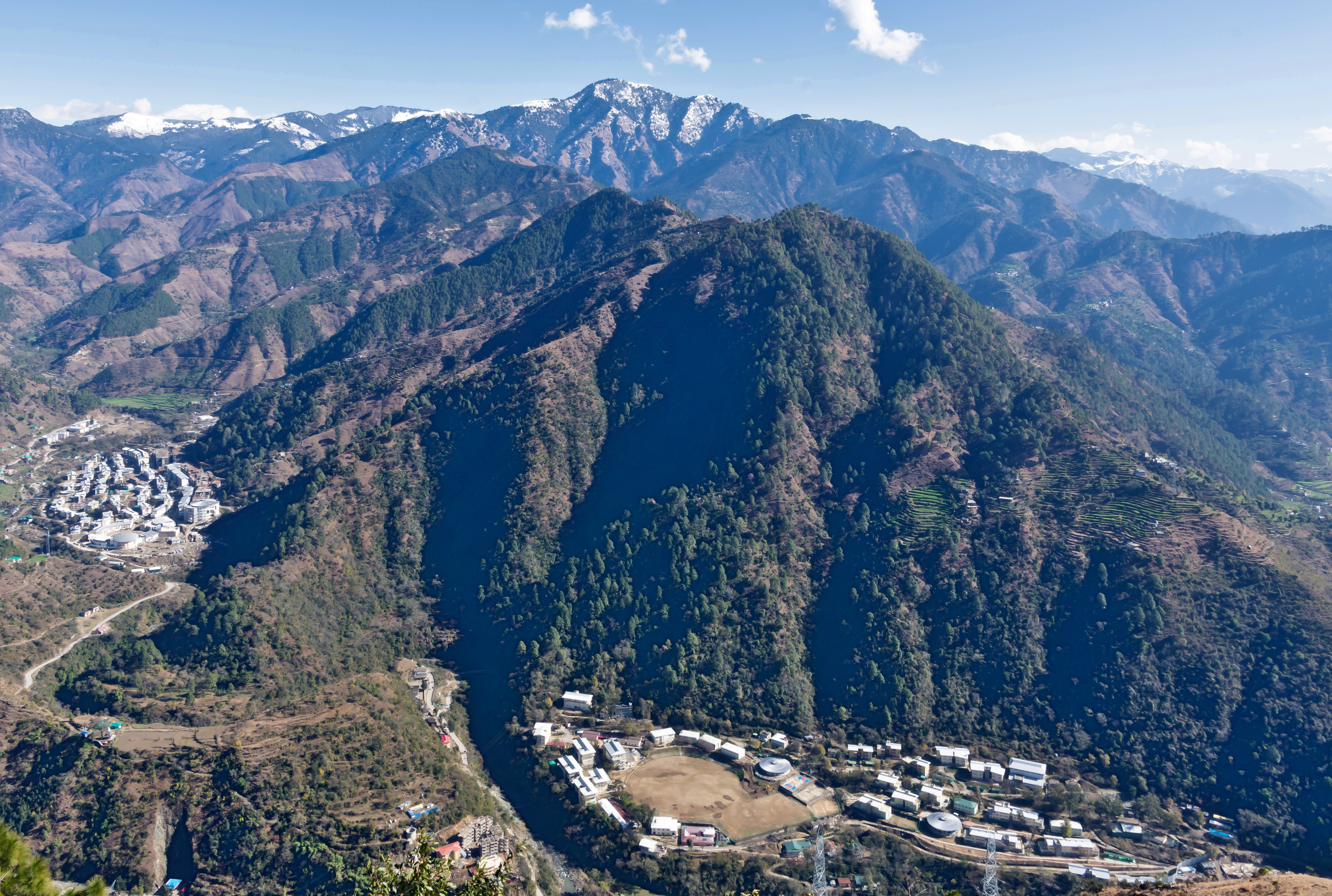 IIT Mandi Campus from Griffon Peak, Jan 2020. South Campus in the foreground, North Campus in left-centre. Uhl River runs left to right along the lower border. Peak in the centre is Kani Top.